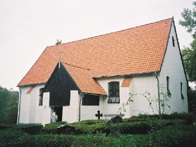 Church of Kloster, Hiddensee, Germany